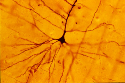 Photo by Bob Jacobs, Laboratory of Quantitative Neuromorphology Department of Psychology Colorado College